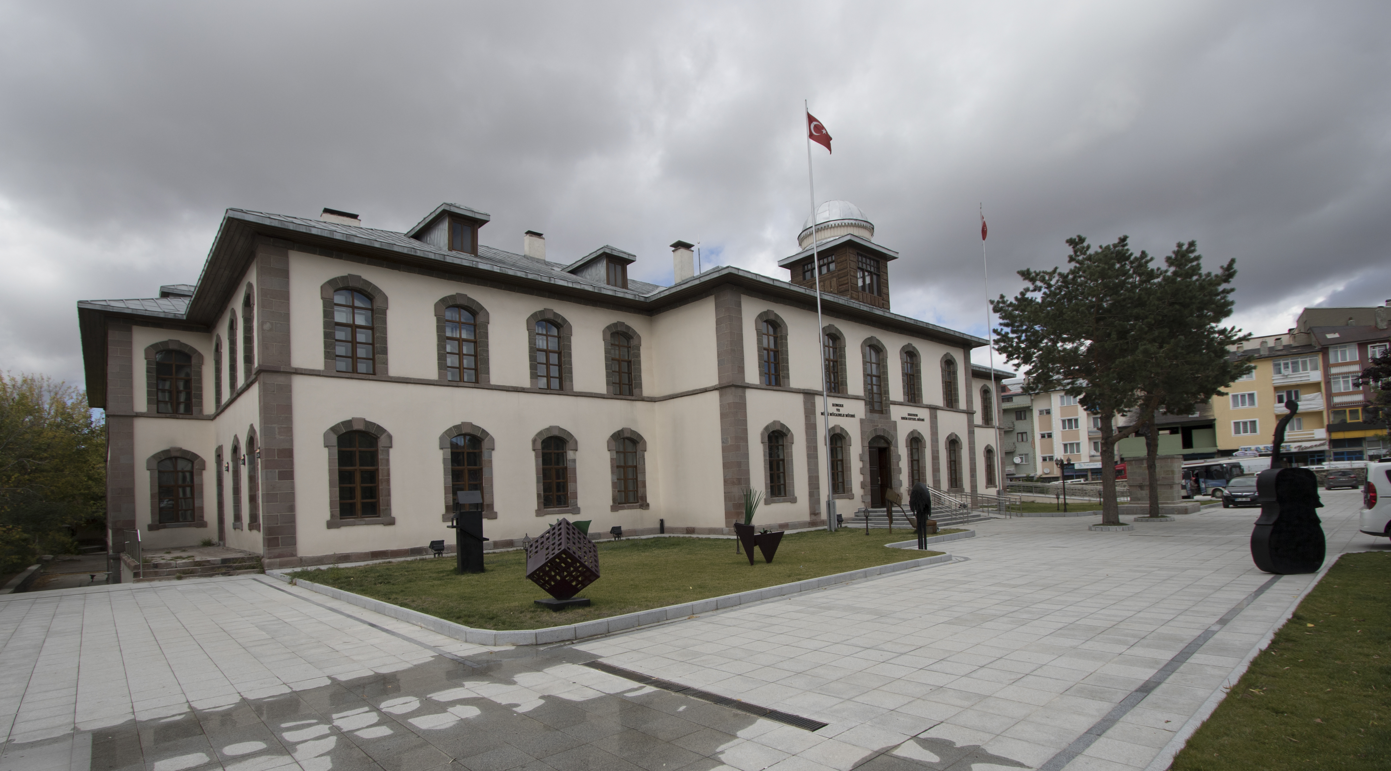 A view of the Museum of Erzurum Congress and Turkish War of National Independence. The Erzurum Congress was an assembly of Turkish Revolutionaries held from 23rd July to 4th August in 1919 in the city of Erzurum, Turkey.